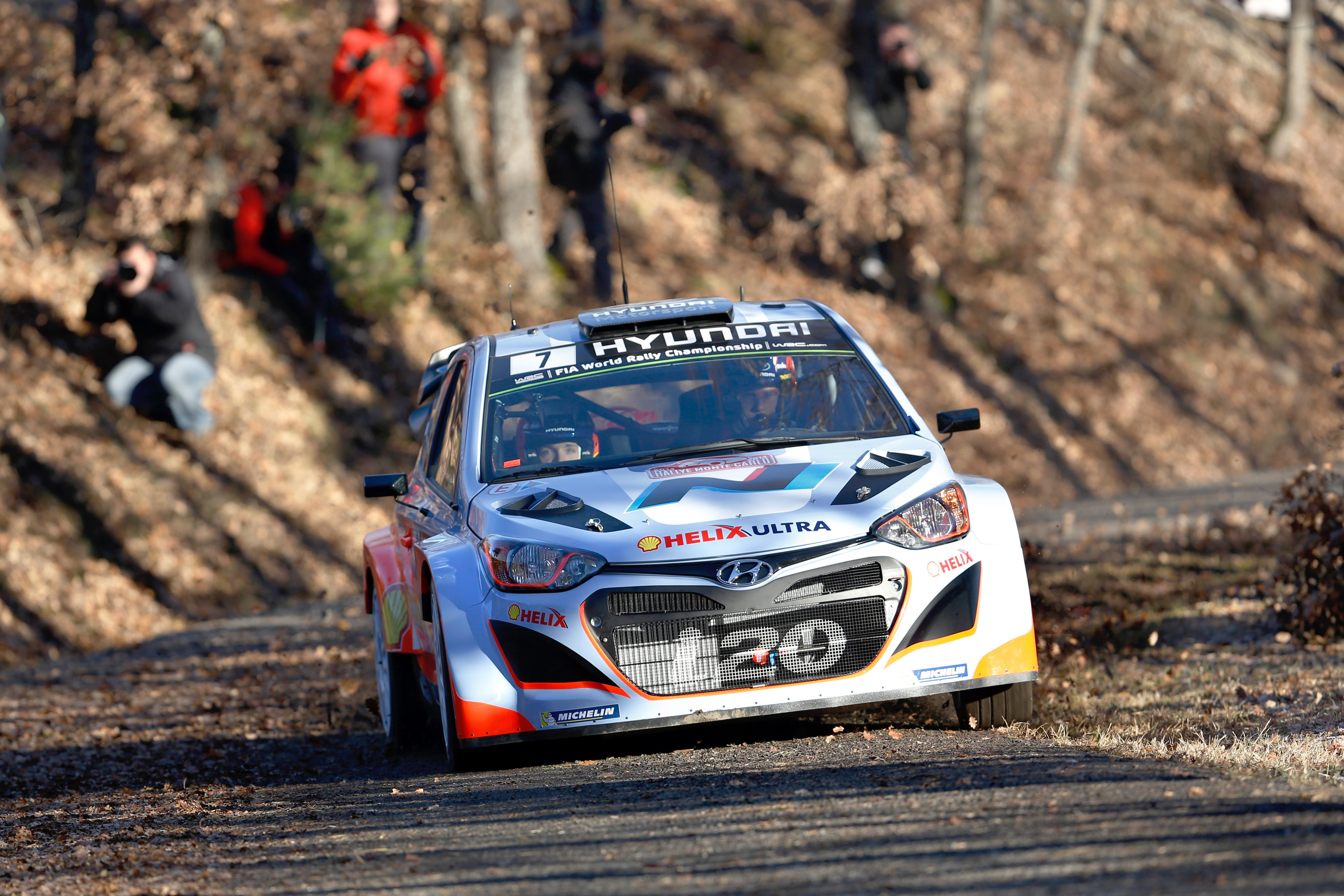 Thierry Neuville and co-driver Nicolas Gilsoul in their Hyundai i20 WRC during shakedown, the day before the start of the 2014 Rallye Automobile Monte Carlo.